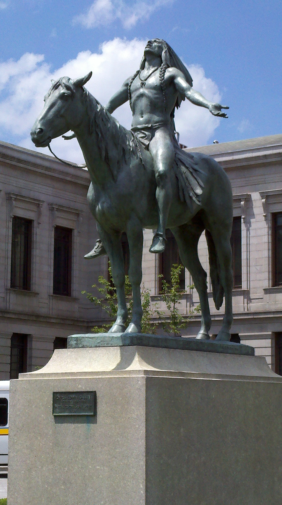 "Appeal to the Great Spirit", a 1909 sculpture by Cyrus Edward Dallin, outside the Museum of Fine Arts in Boston